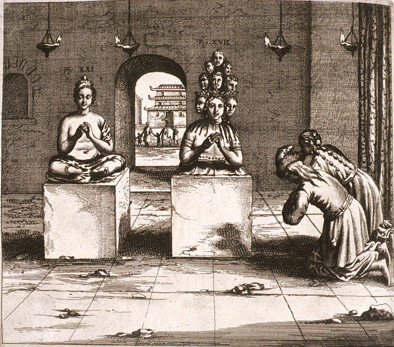 Tibetan Budhist worship in front of two statues of «Manipe» (Bodhisattva Avalokiteshvara). Cut from the book "China Illustrata" of Athanasius Kircher (1667), which he made from a painting of the Austrian Jesuit and traveller to India, China and Tibet, Johann Grueber.